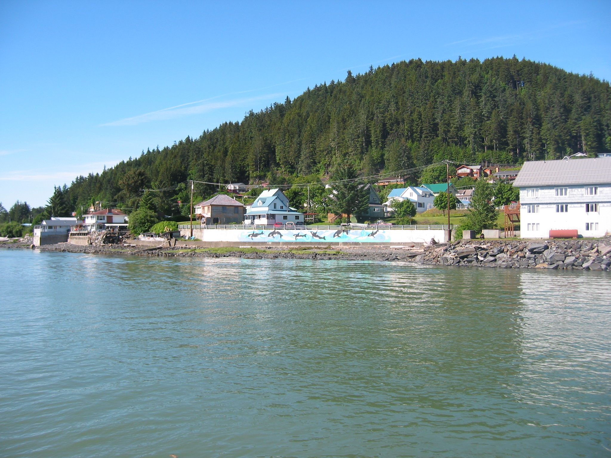 Mount Dewey rising behind Wrangell, Alaska. Taken from the cruise ship dock.